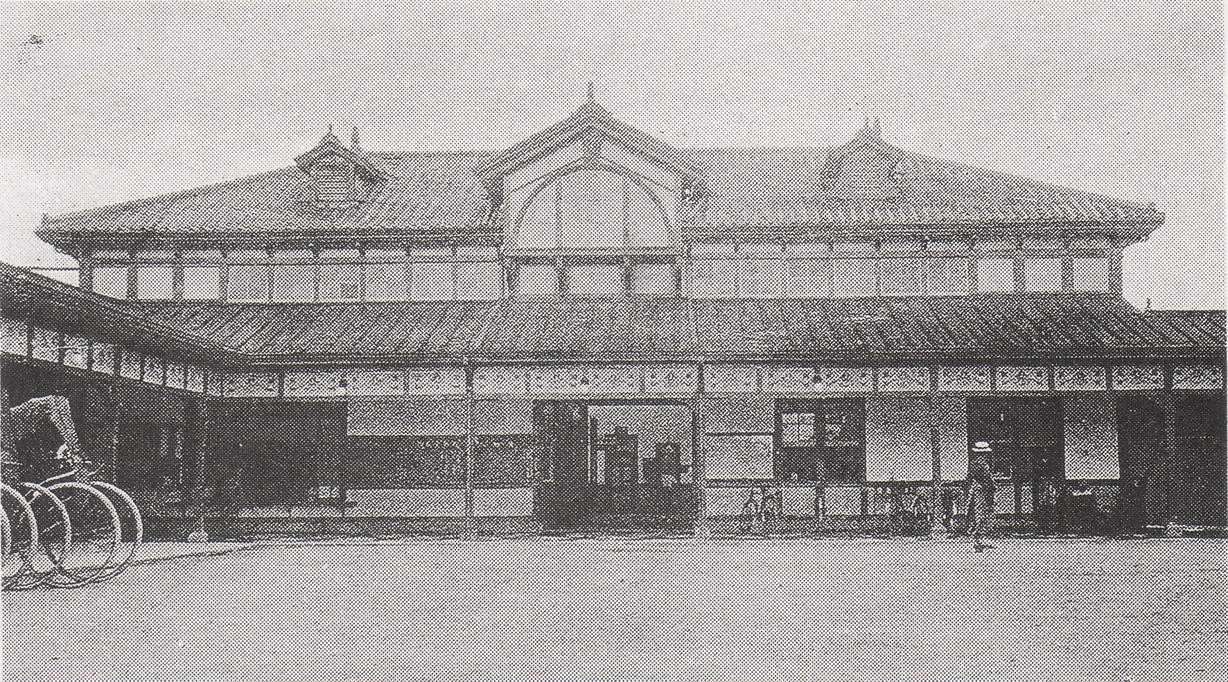 Kagoshima station of Japanese Governmental Railway, Kagoshima city Kagoshima prefecture Japan, which was taken around 1913.